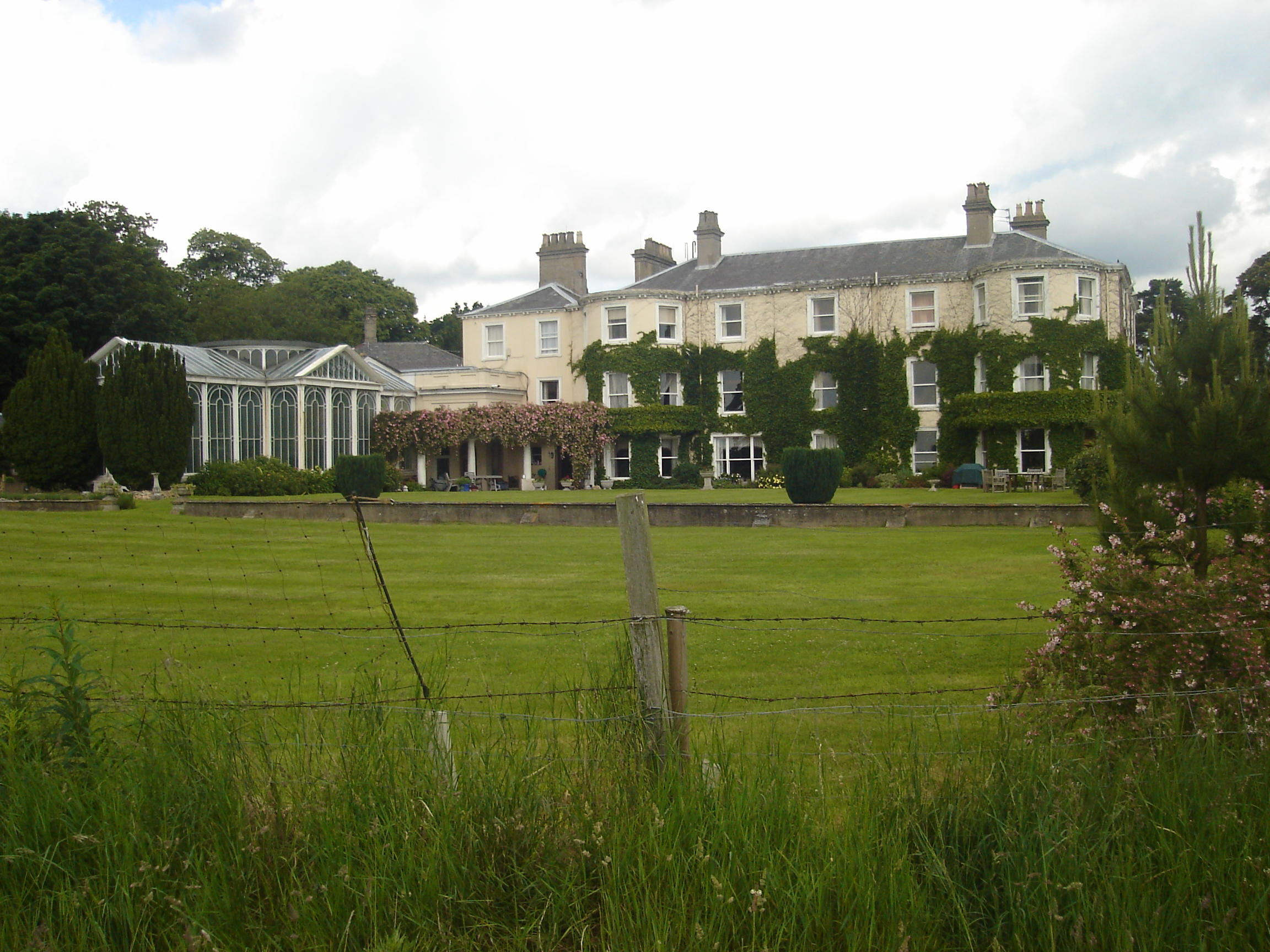 Picture of Catton Hall atCatton Park, Norfolk